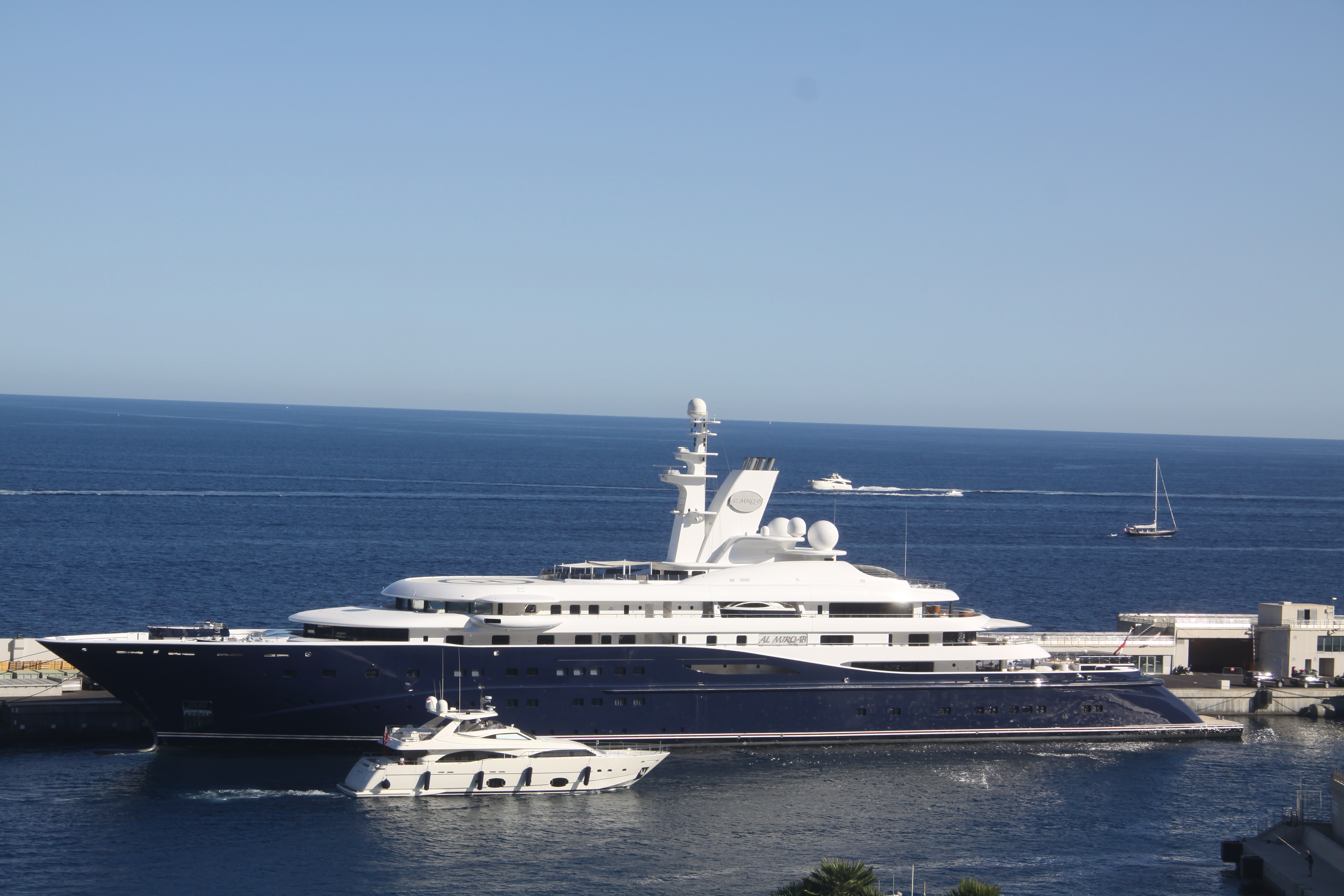 The Al Mirqab in the port of Monaco the fifth of August of 2009.